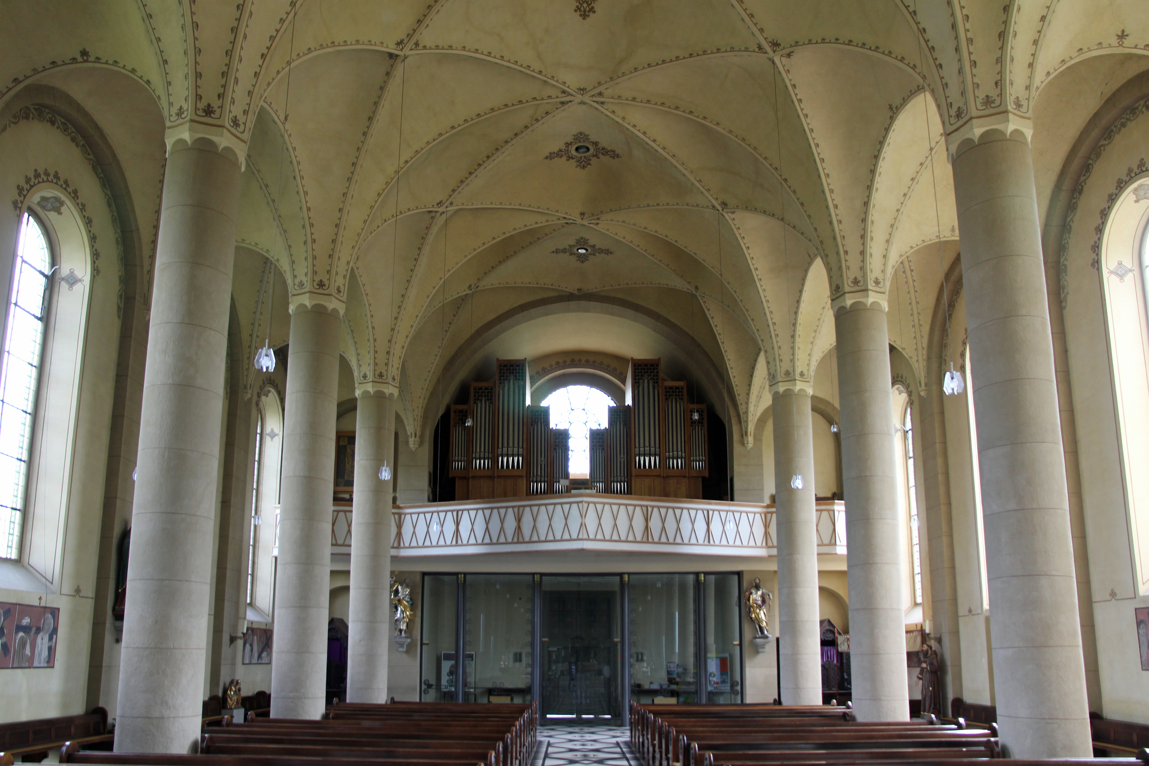 St. Servatius church in Koblenz